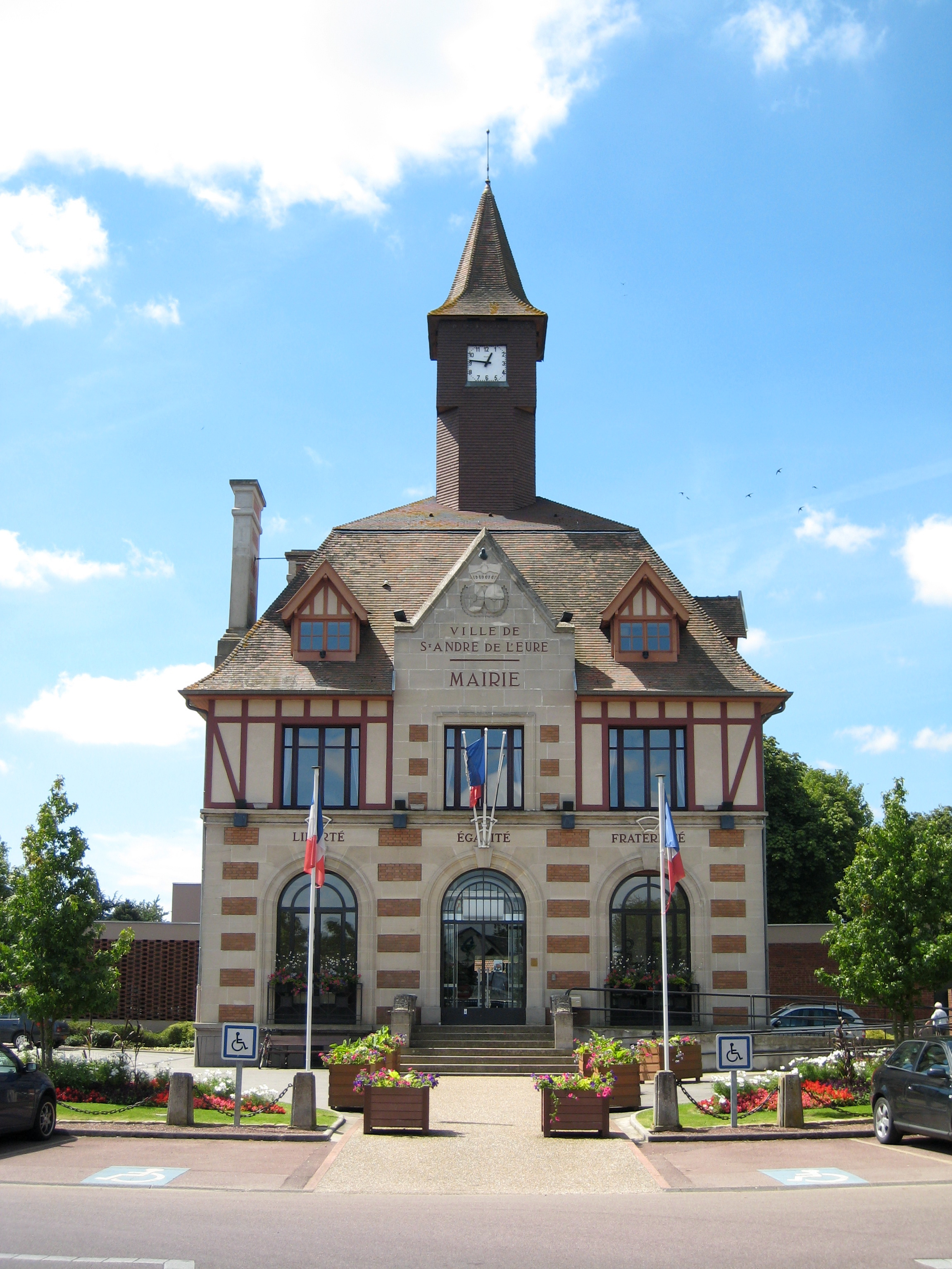 The city hall of Saint-André-de-l'Eure (Eure, 27) France